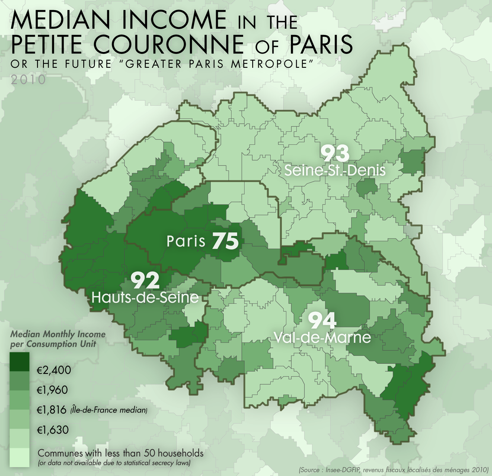 Median income in the petite couronne inner Paris suburb departements of the Île-de-France.